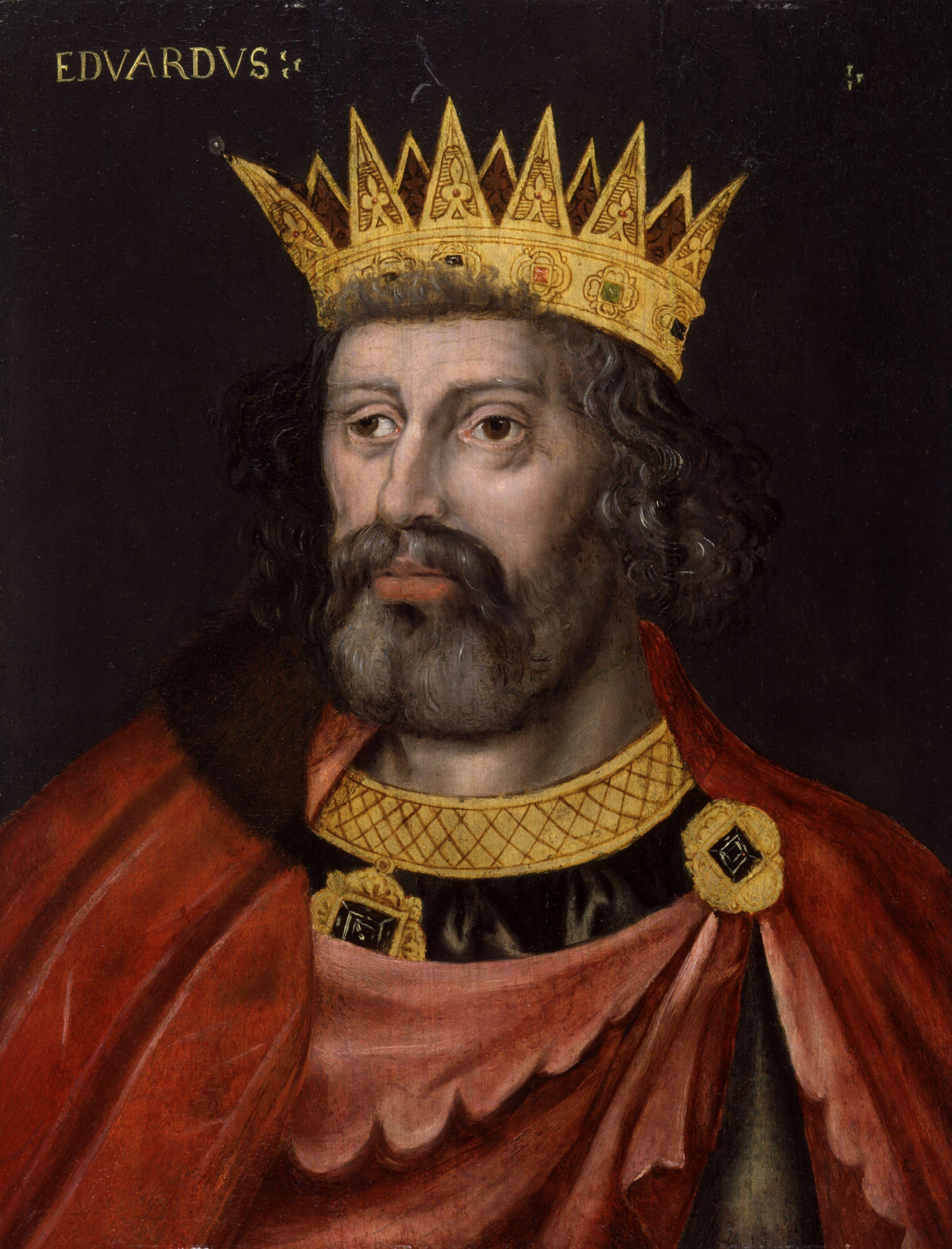 King Edward II, by unknown artist. All images in this batch are listed as "unknown author" by the NPG, who is diligent in researching authors, and was donated to the NPG before 1939 according to their website.